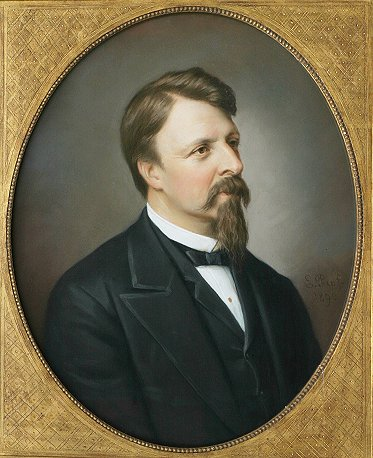 Prince Gaston of Orléans, Count of Eu